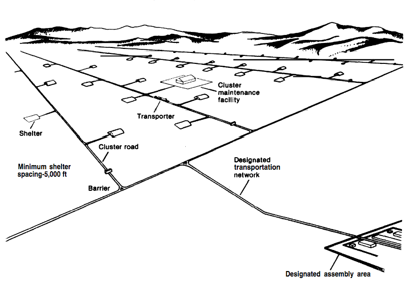 MX Missile Multiple Protective Shelter Basing Mode Description